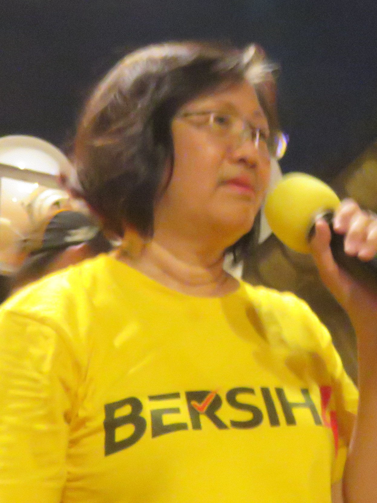 Maria Chin Abdulla, President of Bersih speaks